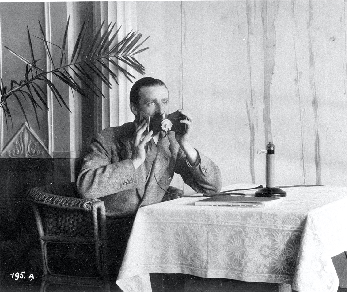 Telephonic interpretation (left Alan Gordon-Finlay), ca. 1927